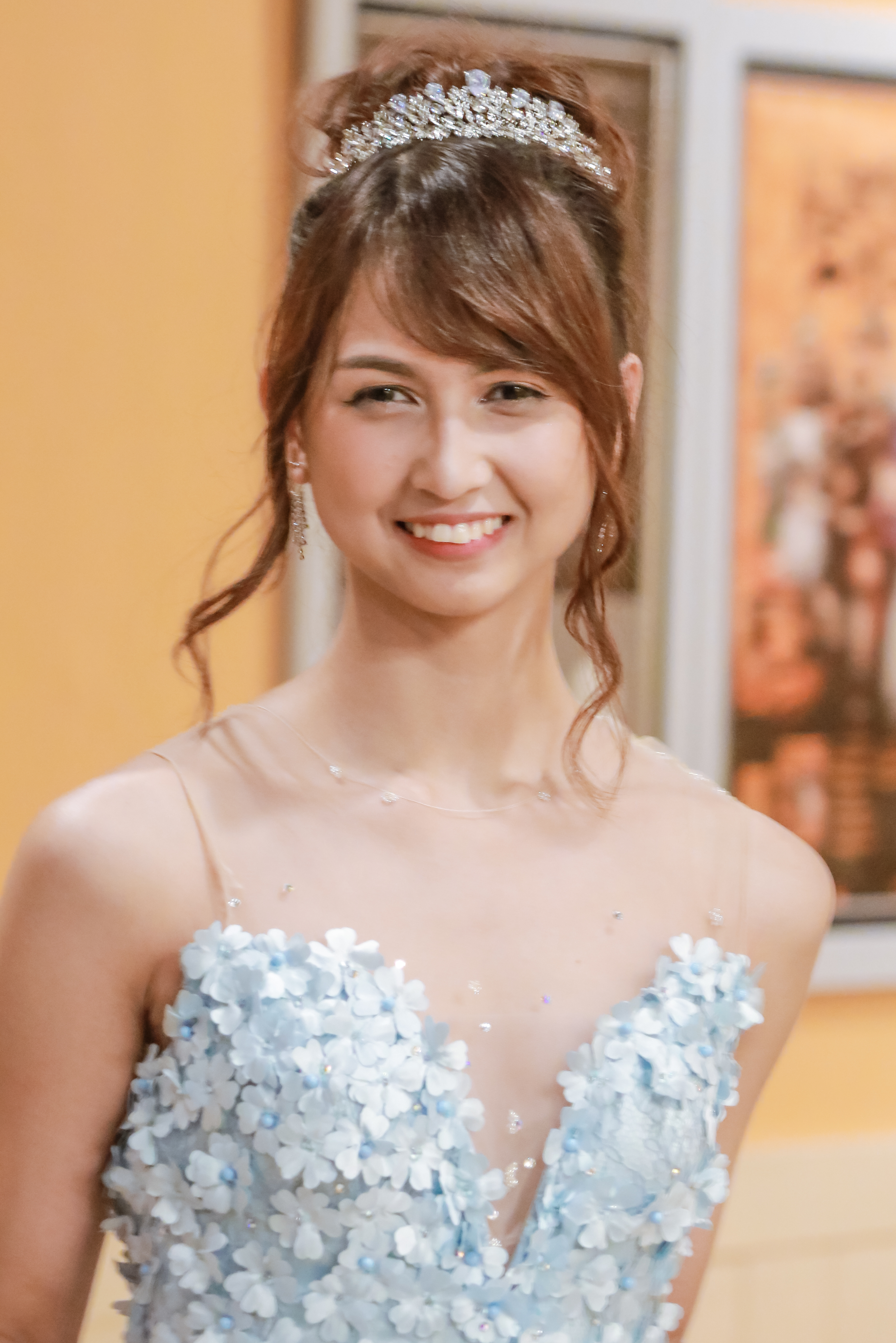 Stephanie Pricilla Indarto Putri on 28 September 2019